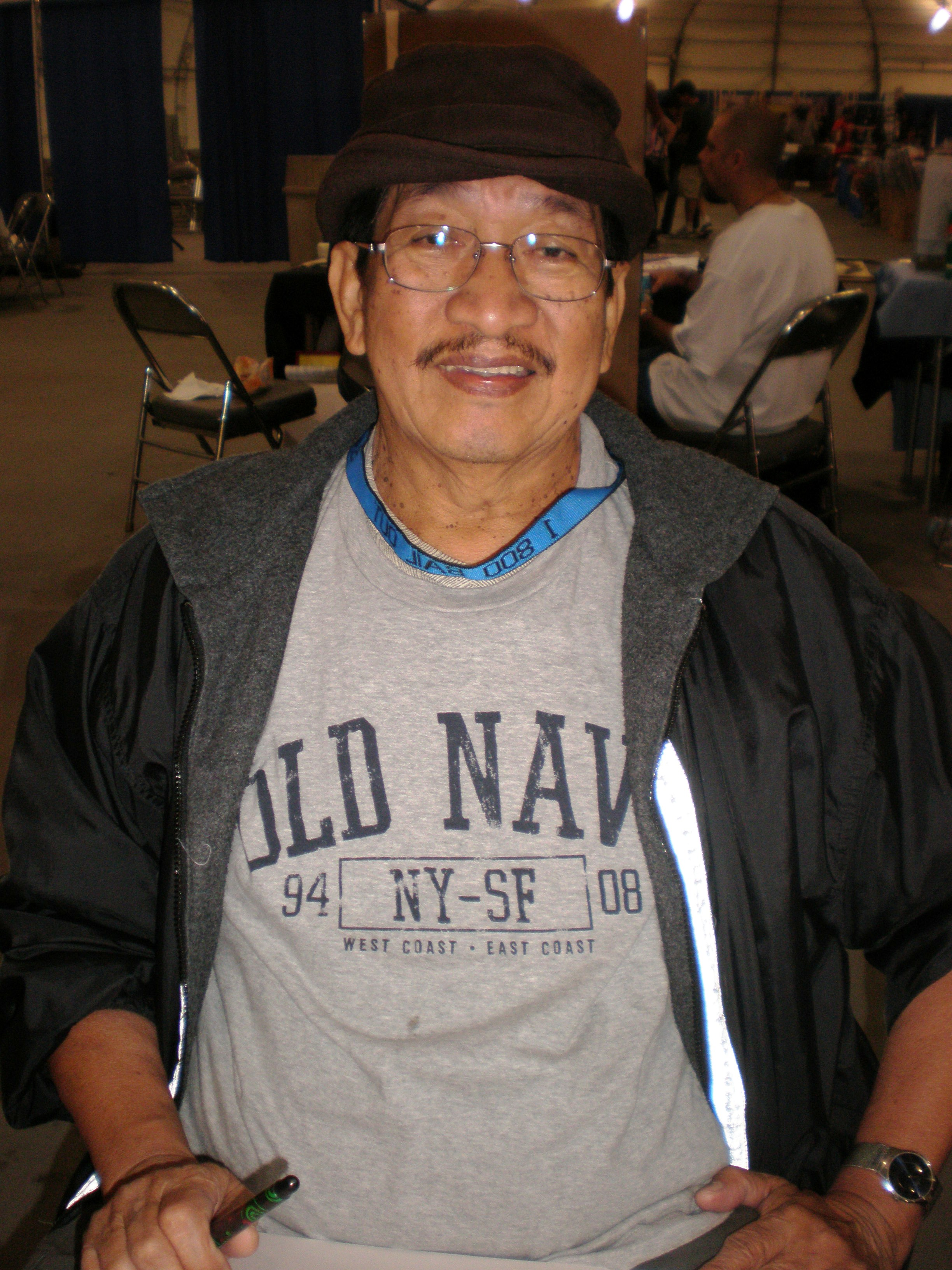 Alex Niño at Super-Con 2009 in San Jose, California.